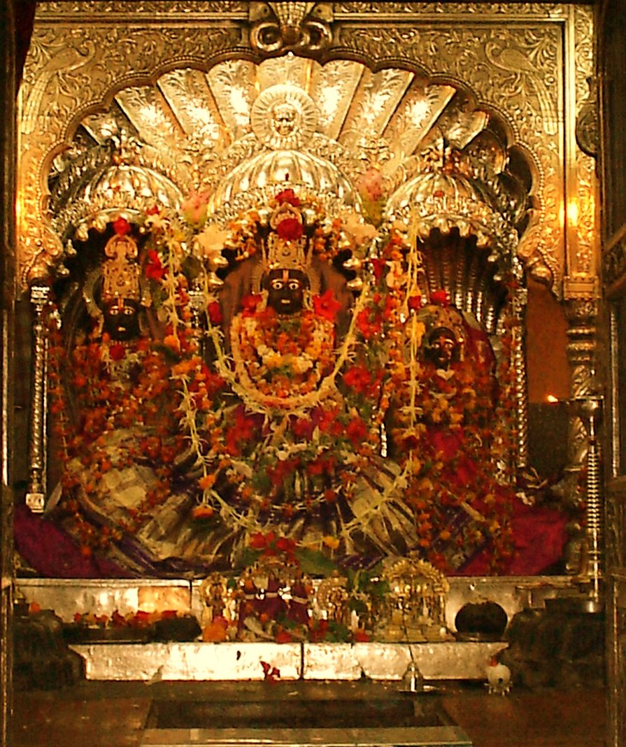 Rama, Lakshman and Sita at the Kalaram Temple, Nashik.